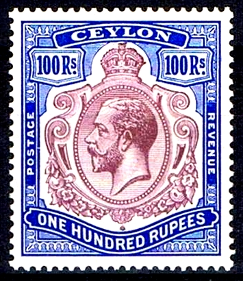 An unused 100R British stamp for Ceylon (Sri Lanka).